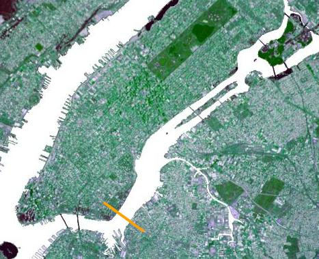 The Williamsburg Bridge is shown in orange on a satellite photo of New York City.